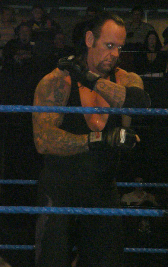 Undertaker @ Adelaide, South Australia 'Smackdown/ECW' house show on the 14th of June '08